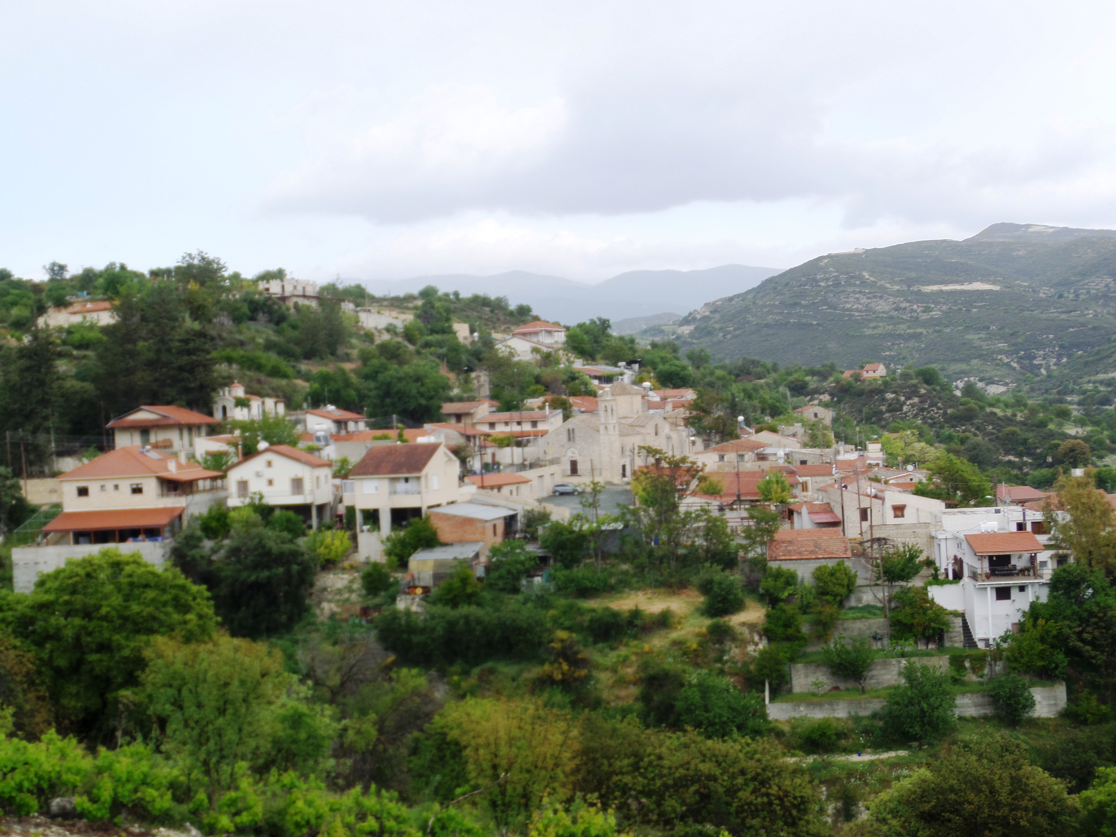 View of Potamiou.